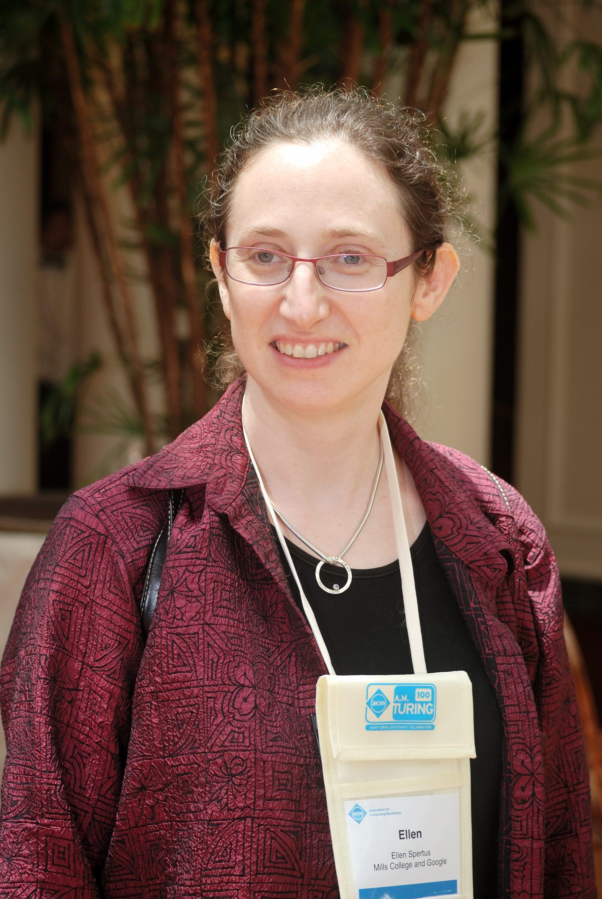 ACM Turing Centenary Celebration in 2012